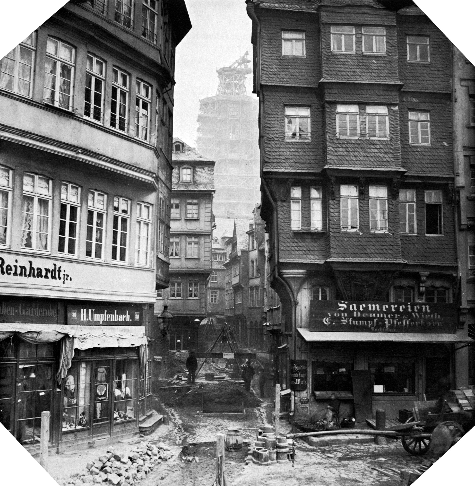 Frankfurt on the Main: Ground floor of the Großer und Kleiner Engel (Large and Small Angel), in the background the Alter Markt (Old Market) during sewer construction works, in the very background the spire of the cathedral in a scaffolding after the fire